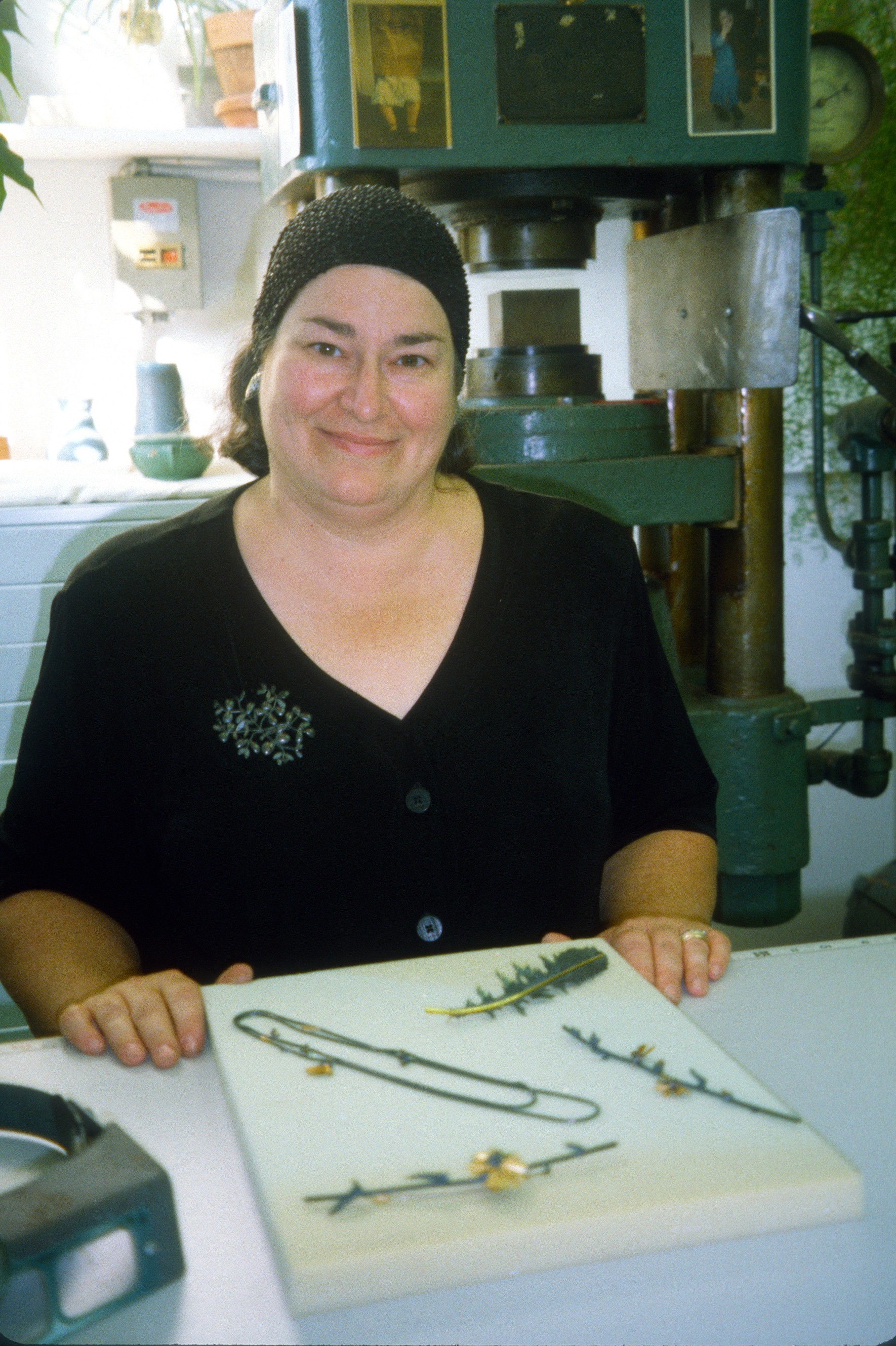 Artist Jan Yager seated in her studio in front of her 200 ton Hydraulic Press. Several pieces of her jewelry are shown in front of her, and she is wearing a brooch that is one of her works.